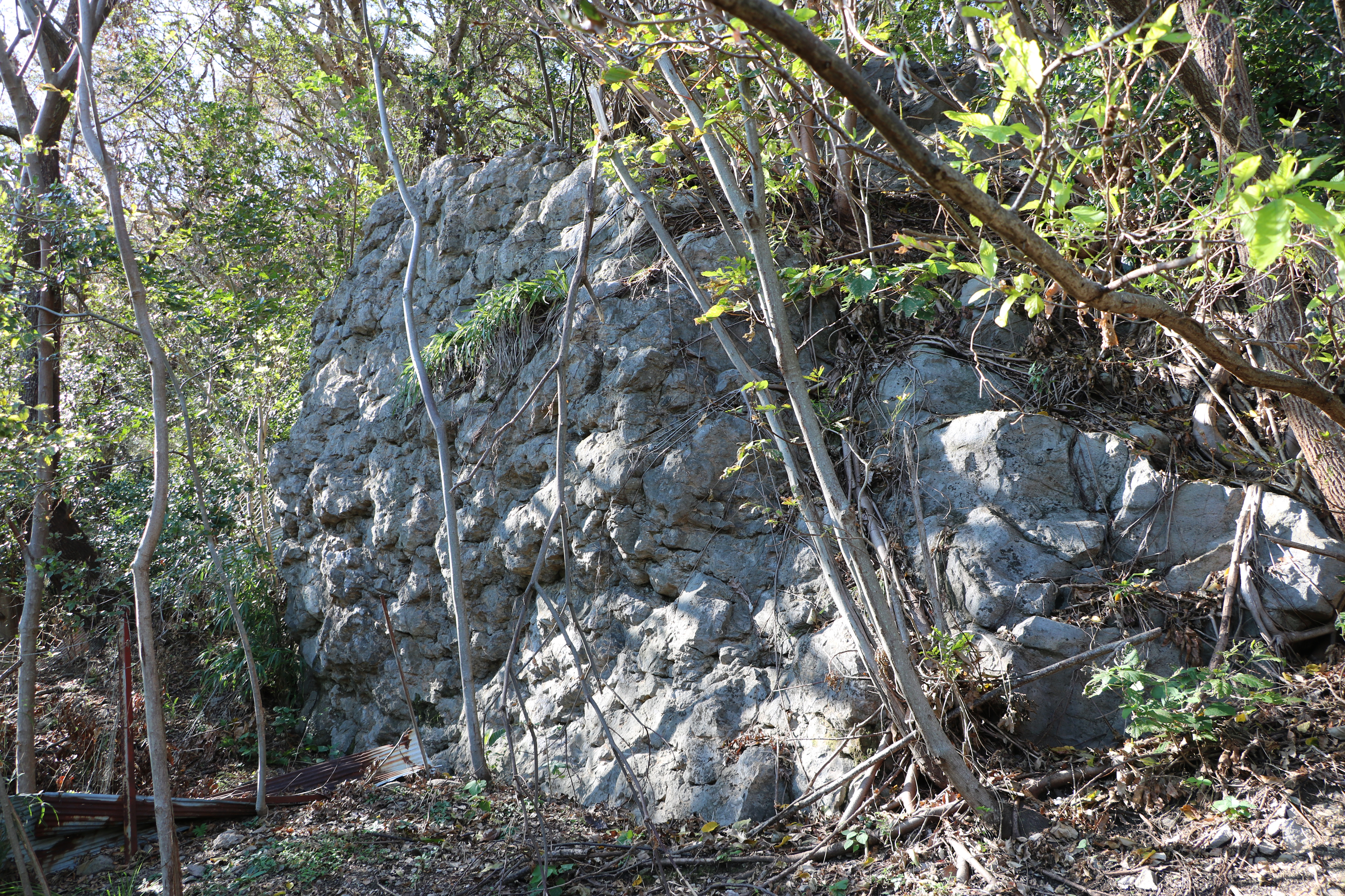 Monzen no Oiwa ,natural monument of Japan